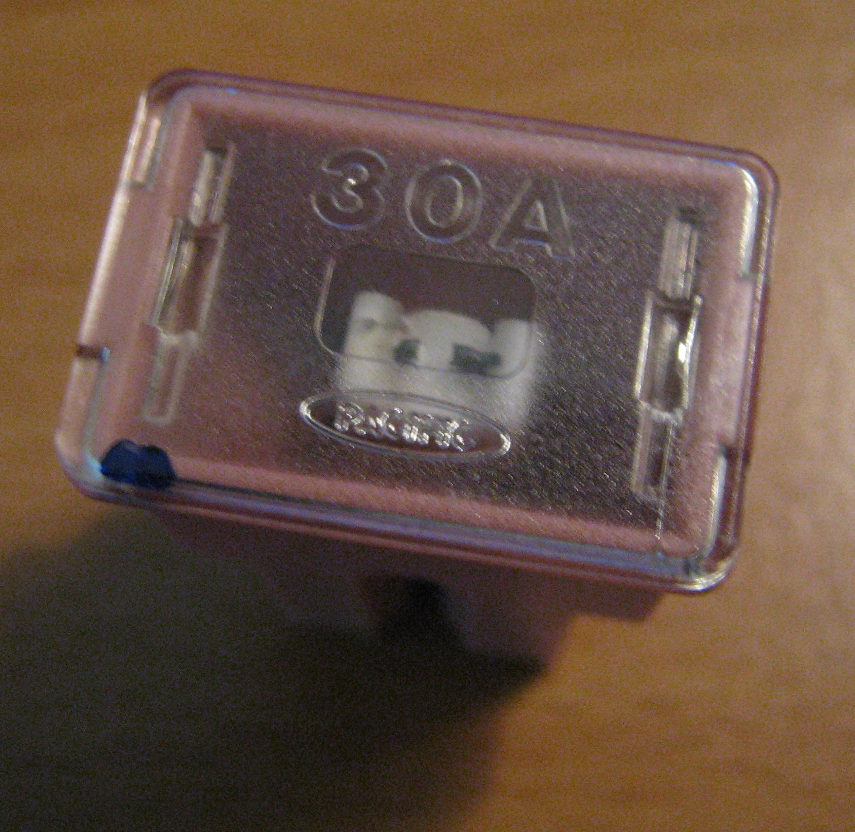 Picture of a 30 Amp Fusible Link that has been burned out. Fusible link taken from 1997 Ford Escort, engine compartment fuse box, socket 2, "Defogger".